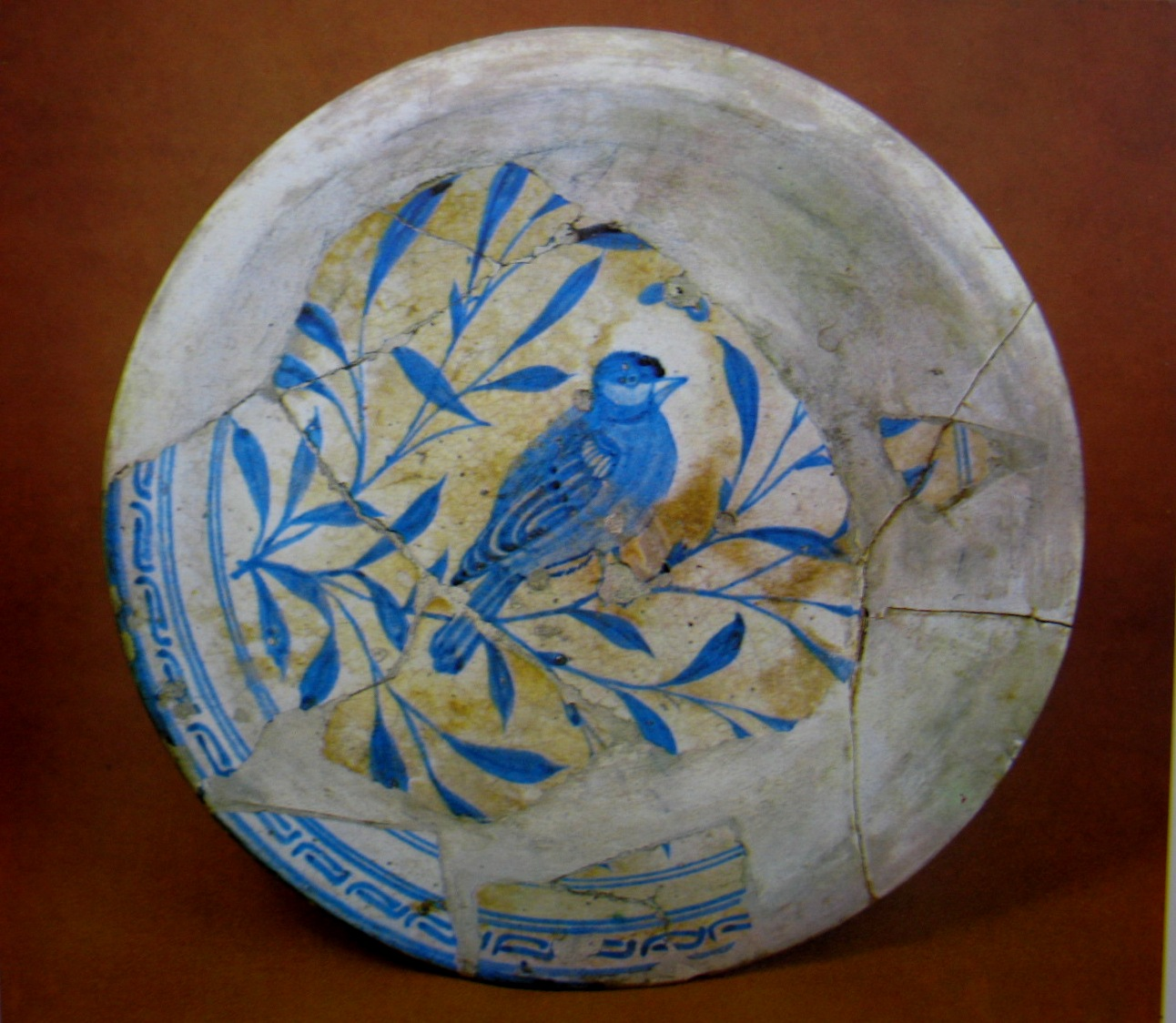 Pottery of Timurids epoch, Samarkand, 15th century